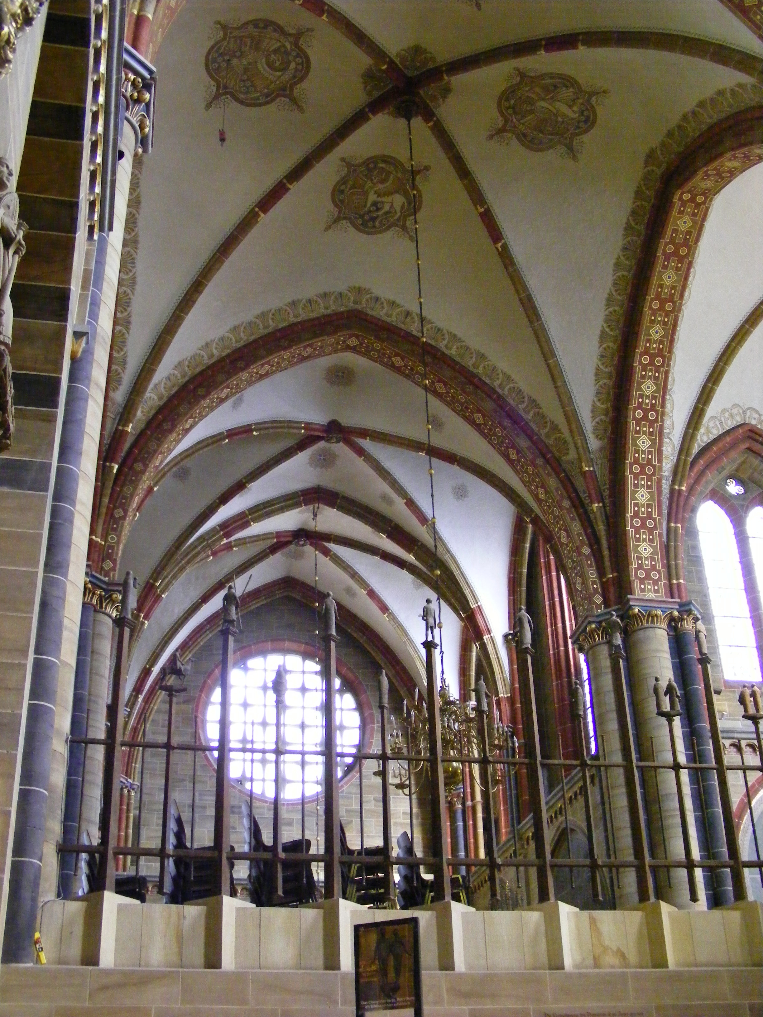 Crossing of Bremen Cathedral, seen from the southern transep